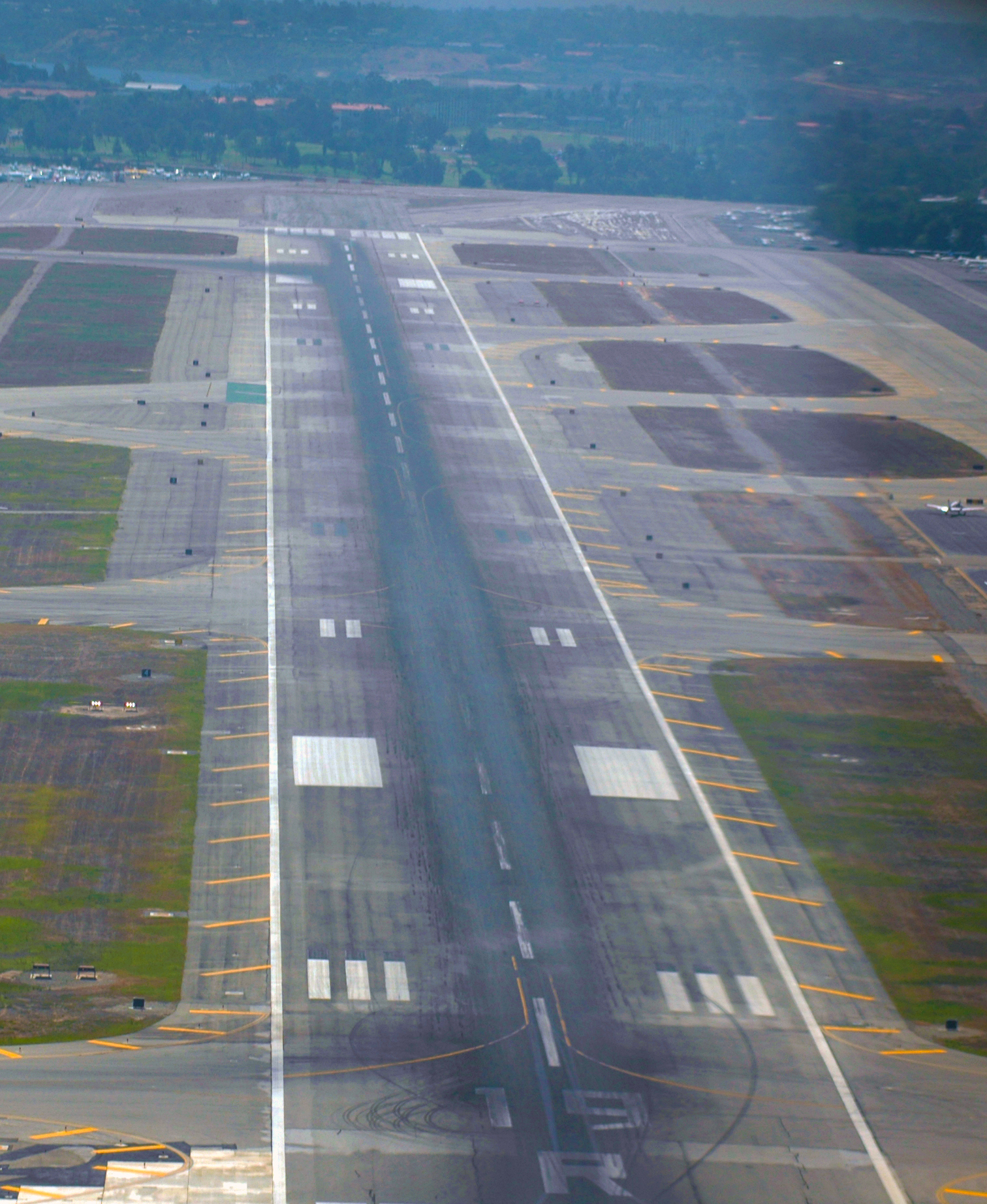 KSNA 19R Photo D Ramey Logan